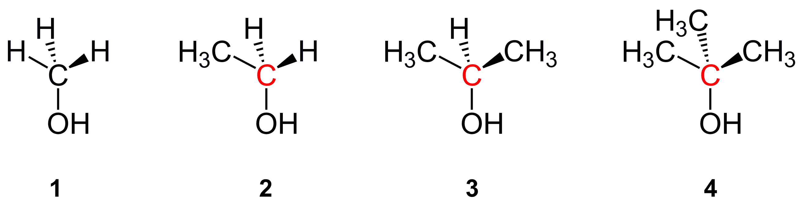 different types of alcohols: methanol (1), ethanol (2), 2-propanol (3), tert-butanol (4)